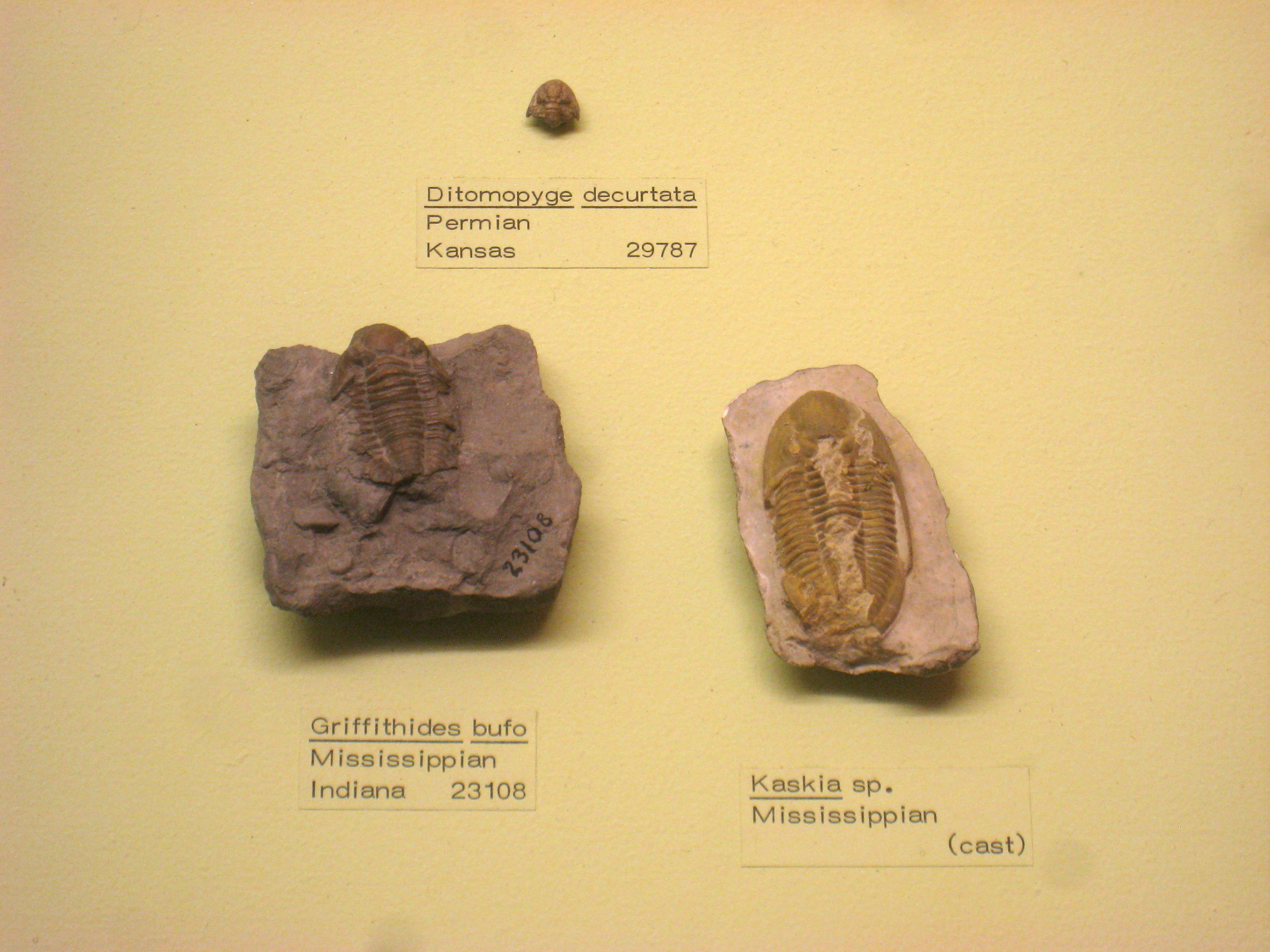 Ditomopyge decurtata, Griffithides bufo and Kaskia. Exhibit Museum of Natural History, University of Michigan, 1109 Geddes Avenue, Ann Arbor, Michigan, USA.